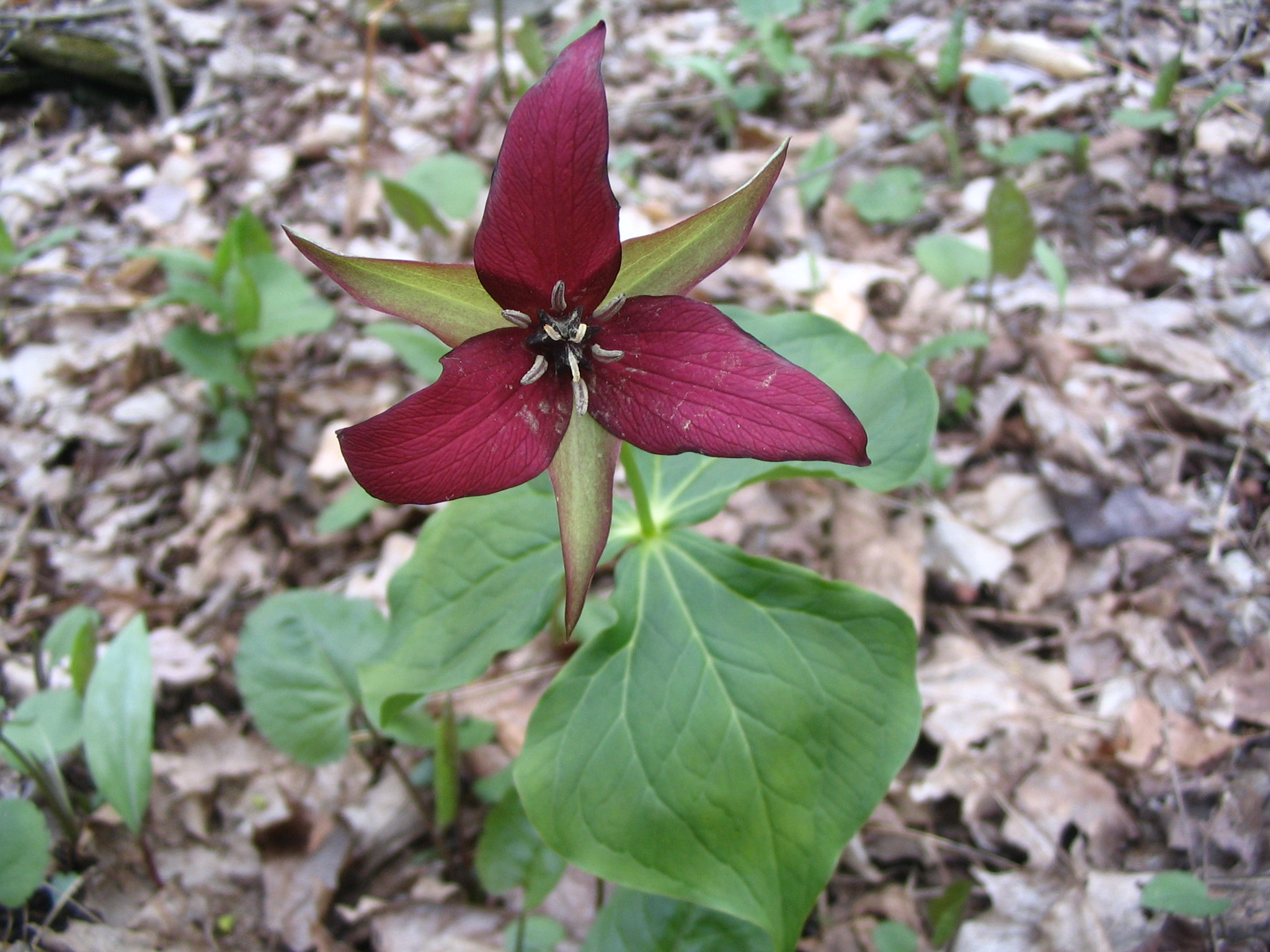 Purple Trillium - Trillium erectum